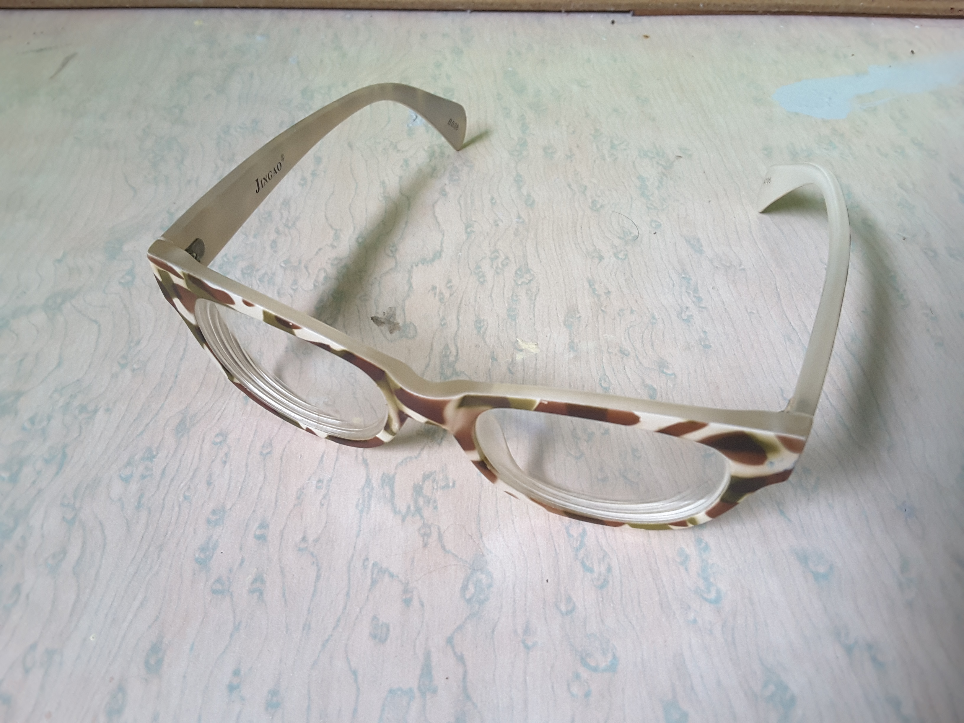 Spectacles made in Communist China.